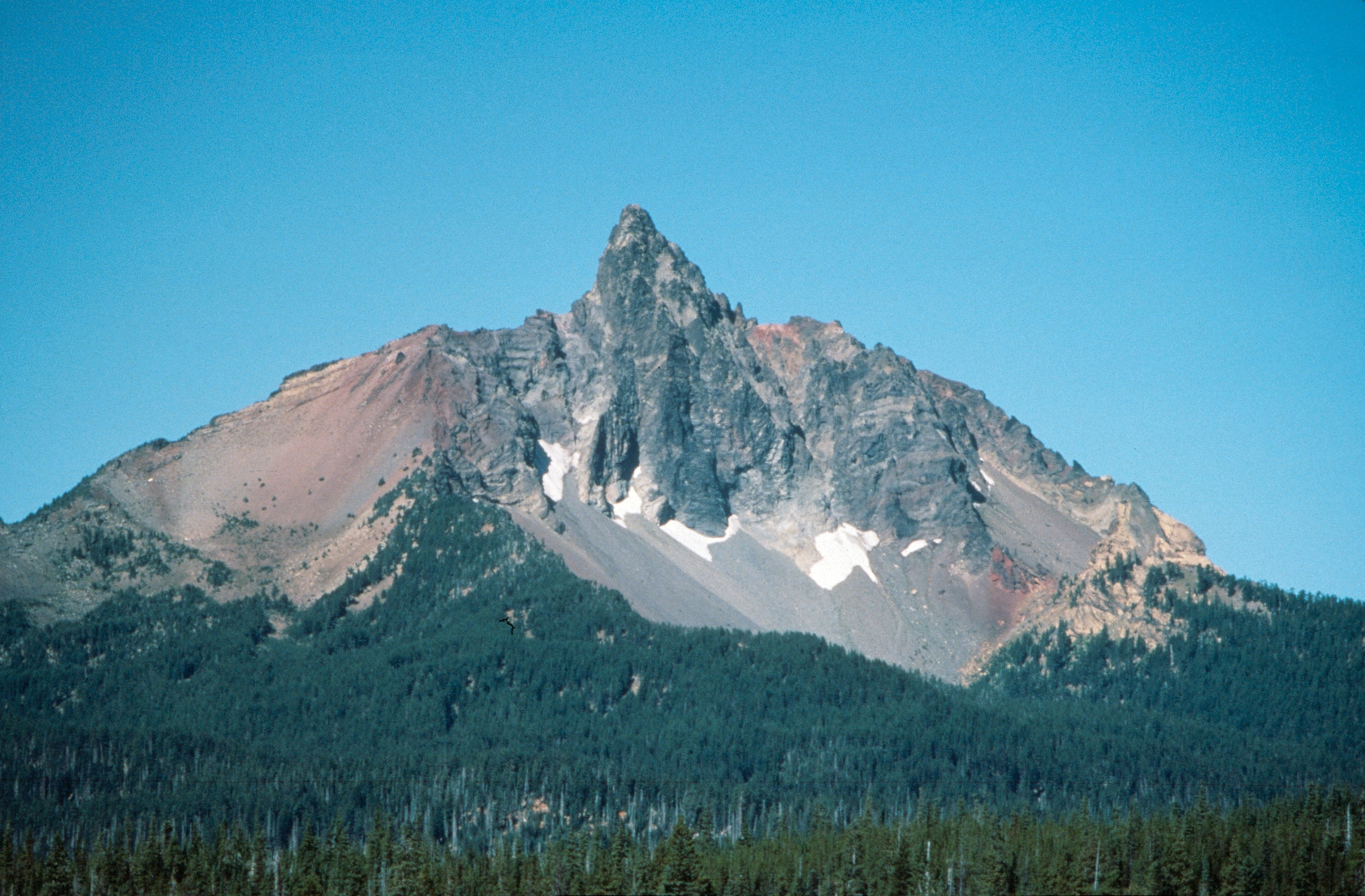 Mount Washington, Oregon, as seen from the east